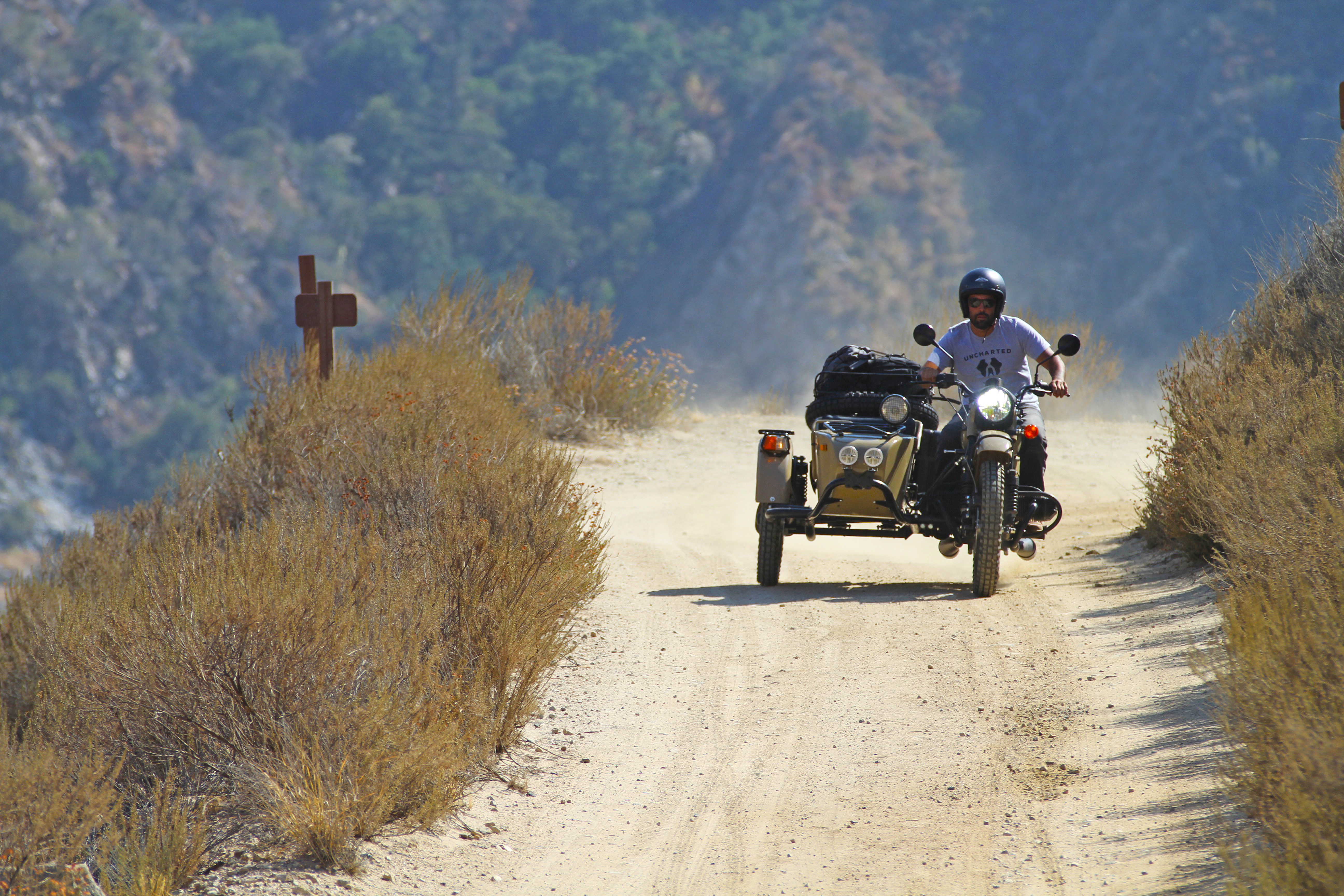 Gear Up Sahara